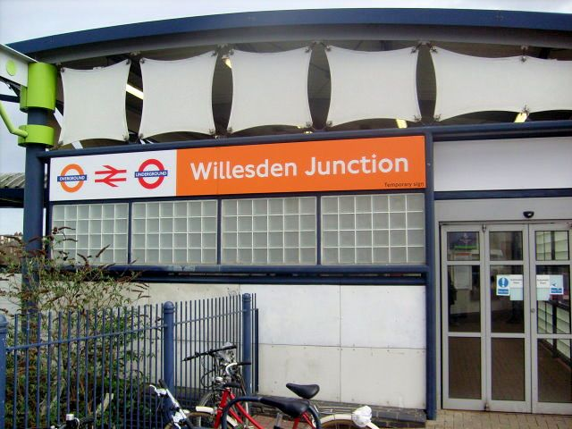 Entrance to Willesden Junction London Overground & Underground Station